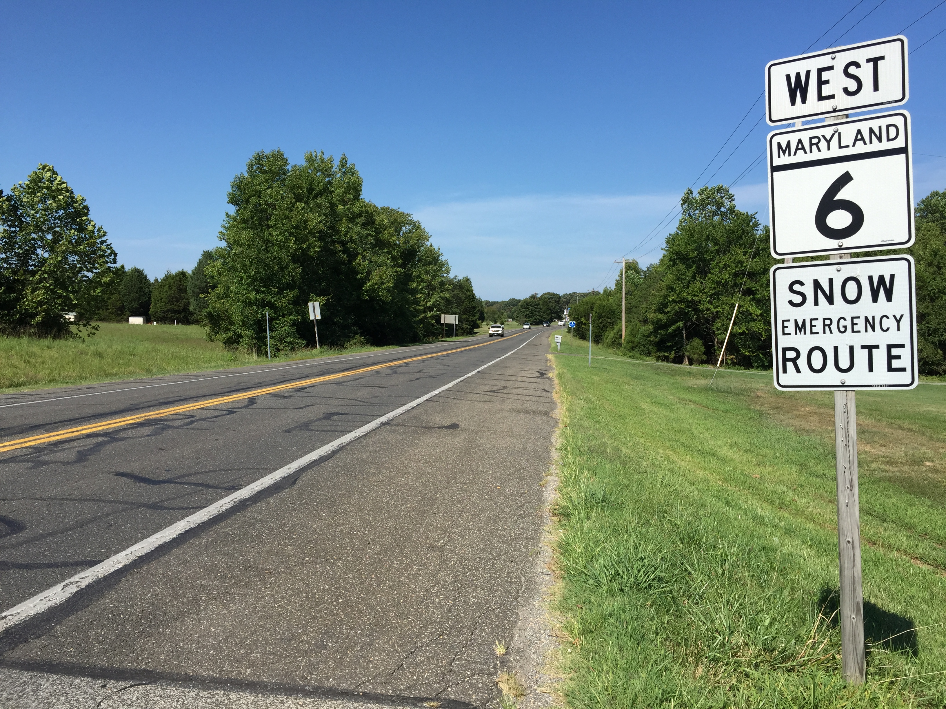 View west along Maryland State Route 6 (Charles Street) at Wheatley Road in Dentsville, Charles County, Maryland